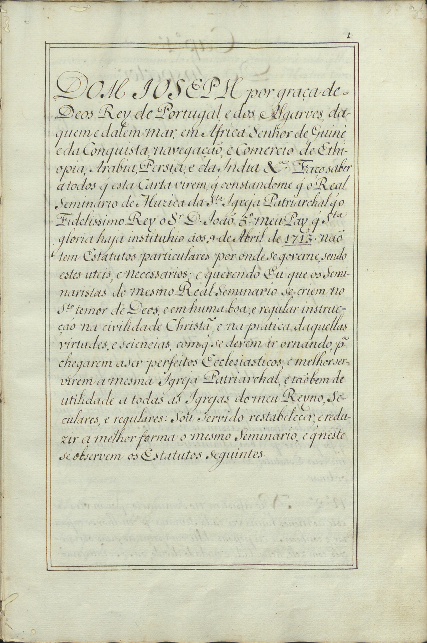 Statutes of the Royal Seminary of the Patriarchal Church. - Ajuda 23 August 1764, p. 1: Introduction. From the collection of the Biblioteca Nacional de Portugal.